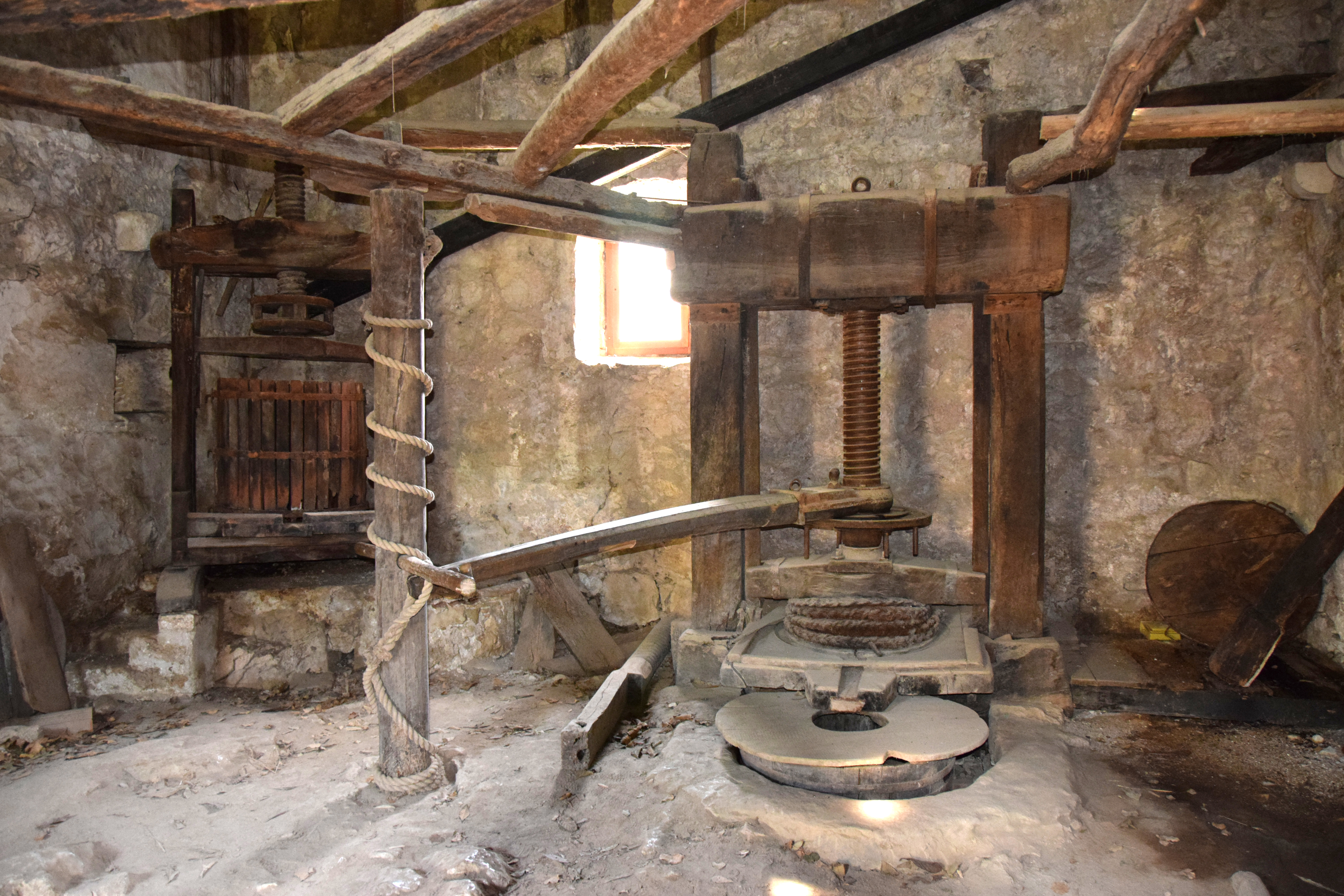 Ancient oil press in olive oil production workshop from the 17th century. The workshop is located in the summer house in Trsteno, national heritage site of Croatia, built in the 15th century